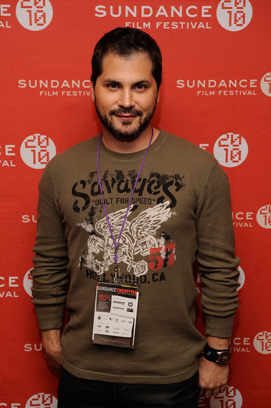 Sundance